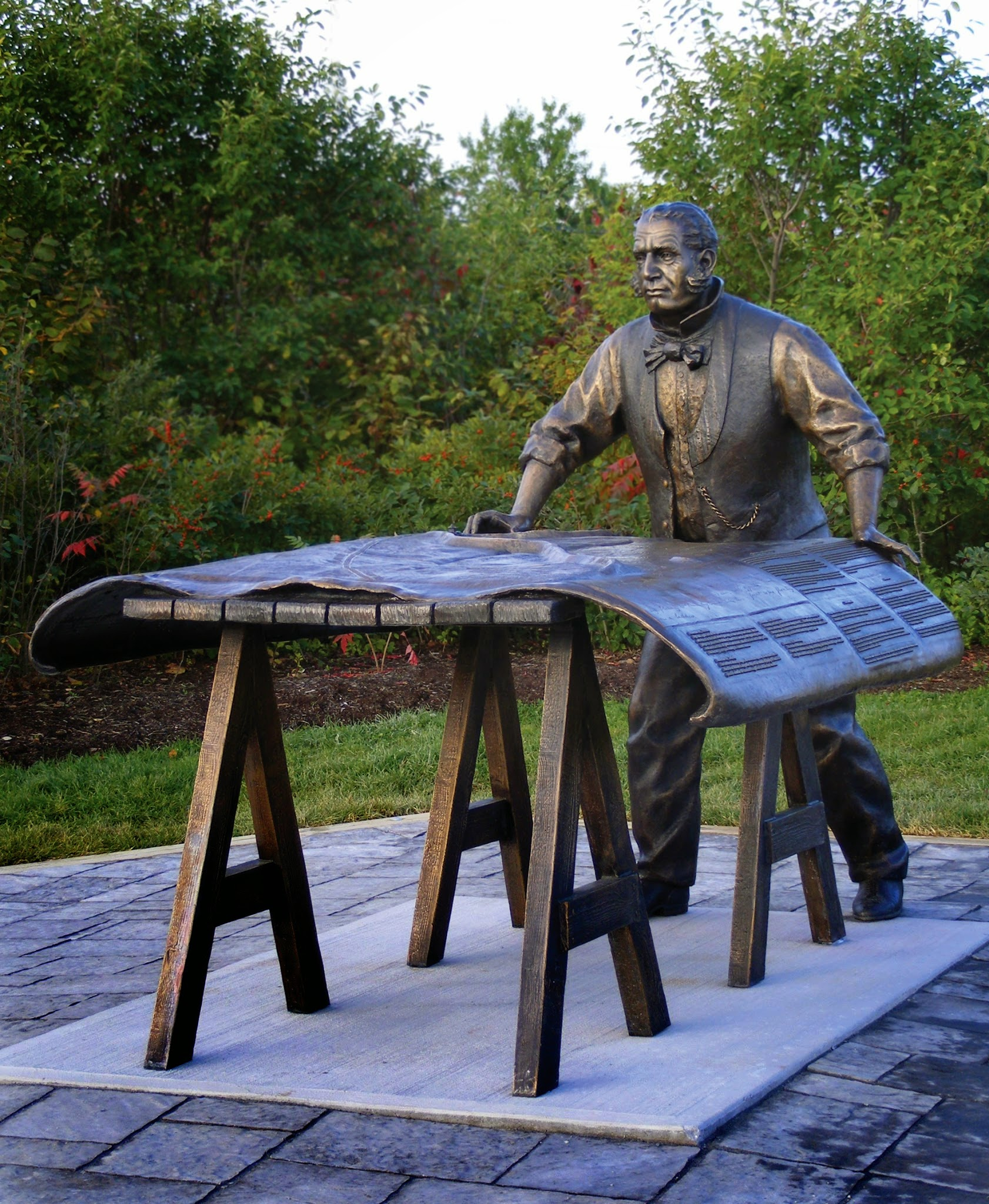 Work at the Trestle, a sculpture by Ruth Abernethy, depicts entrepreneur and engineer T.T. Vernon Smith, who helped open the Annapolis Valley by building the Windsor and Annapolis Railway and its extension to Yarmouth. The sculpture was donated to the town of Wolfville, Nova Scotia by Allen Eaves, Vernon Smith's great grandson. Photograph by Cassandra Koch